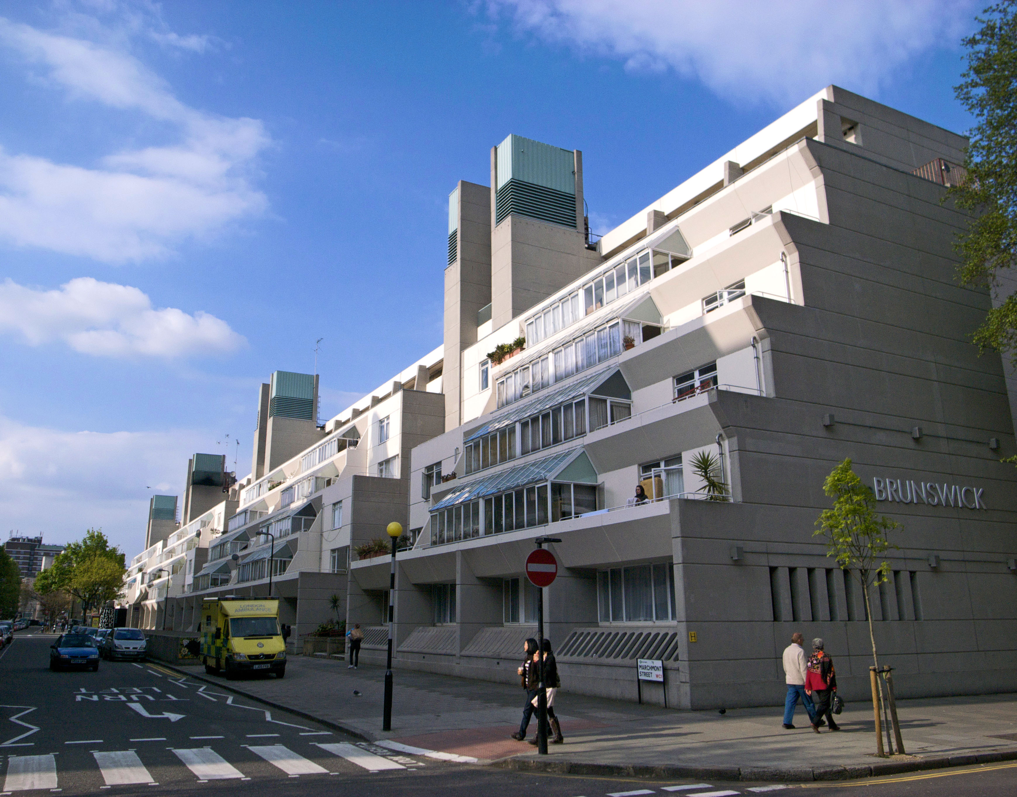 Wohn- und Shopping-Center in Bloomsbury, London